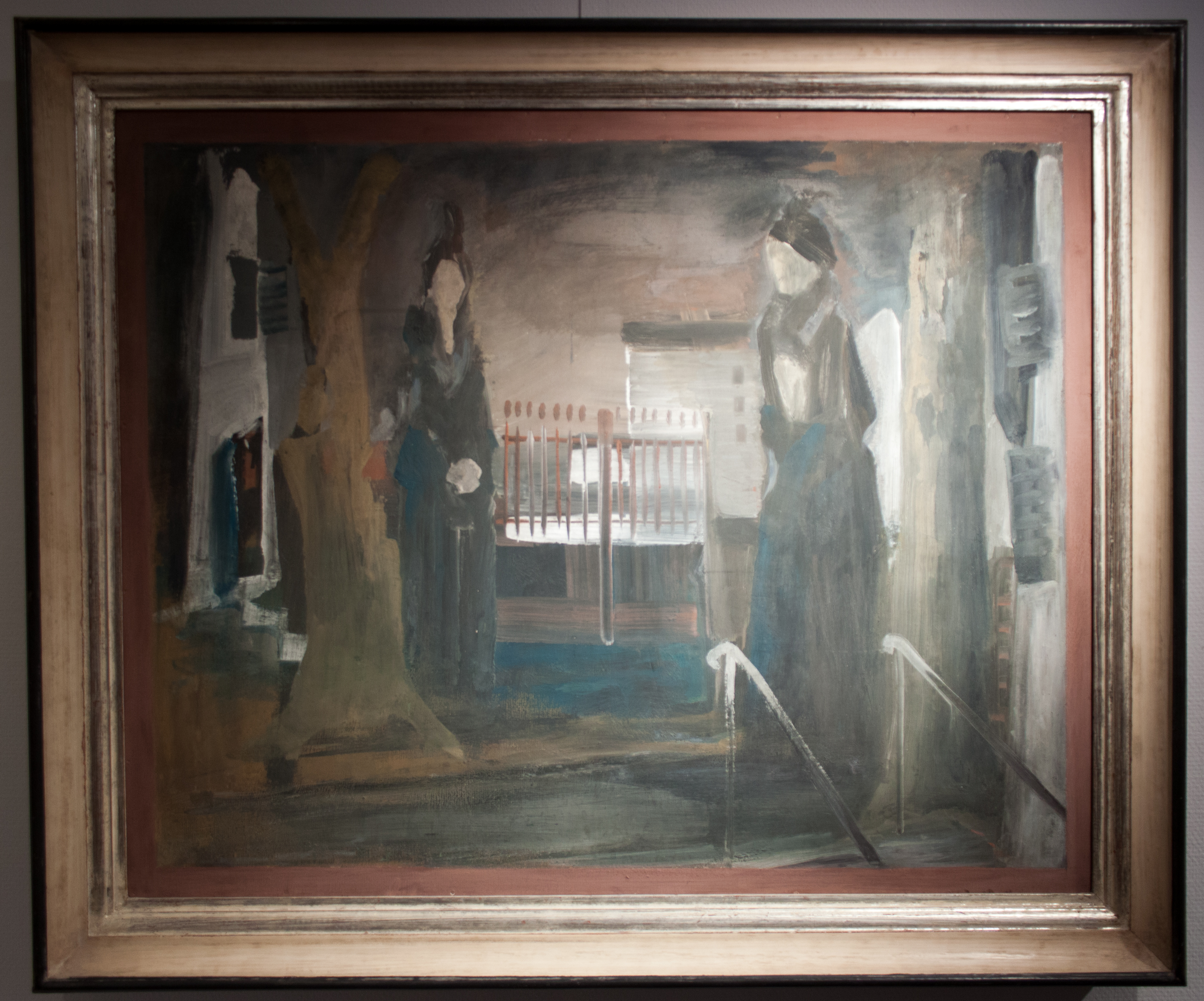 István Farkas - Black women, Year: 1931.